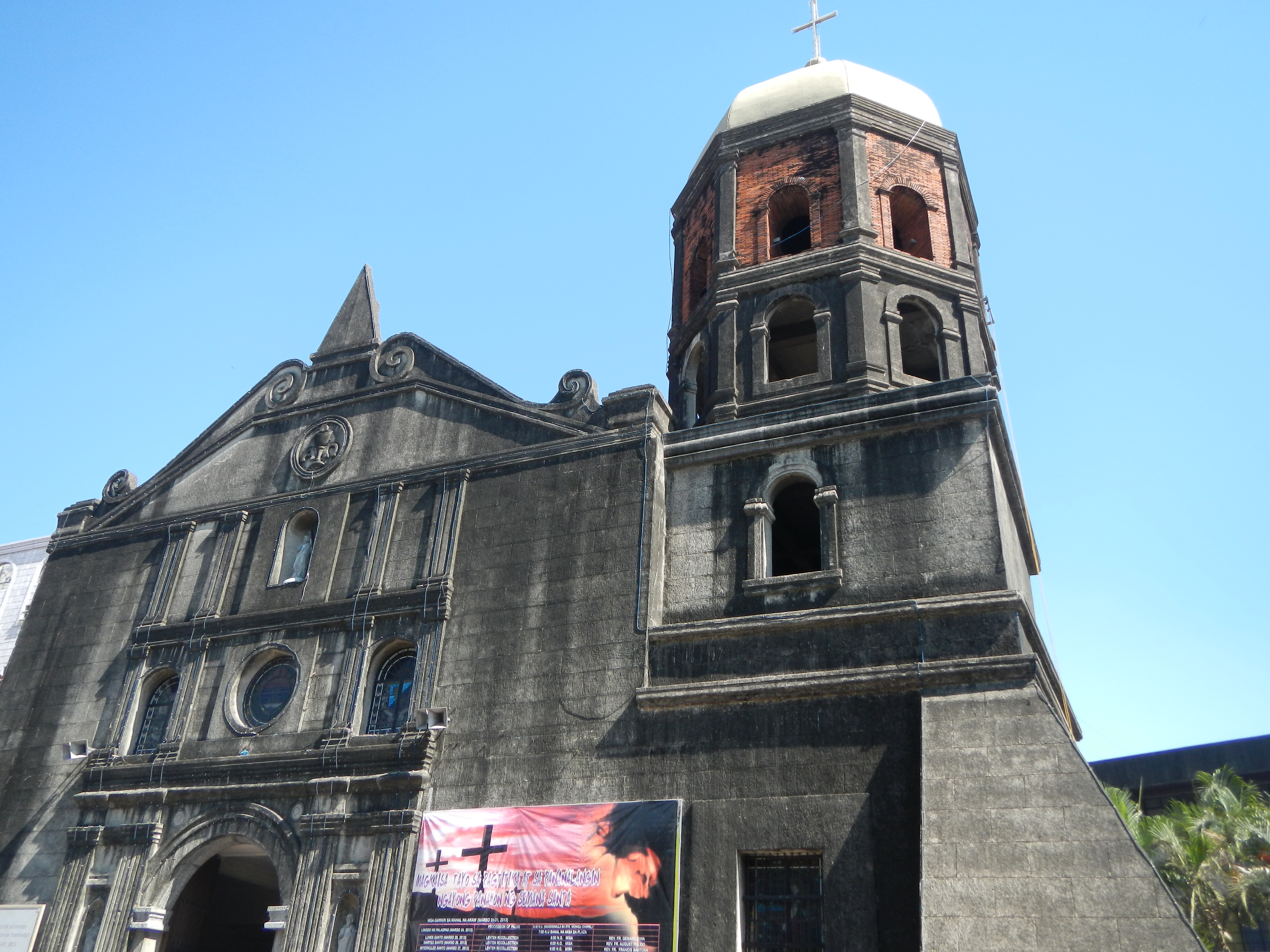 Parañaque Cathedral[1]St. Andrew's Cathedral, officially known as The Cathedral Parish of St. Andrew, is considered one of the oldest churches in the Philippines. It was established in 1580 by Spanish Augustinian friars.The church is the seat of the Roman Catholic Diocese of Parañaque[2], the local church that comprises Parañaque City, Muntinlupa City, and Las Piñas City. ([3]Roman Catholic Archdiocese of Manila). Parañaque[4] The City of Parañaque Andrew the Apostle[5] (Greek: Ἀνδρέας, Andreas; from the early 1st century – mid to late 1st century AD; known by some as Saint Andrew), called in the Orthodox tradition Prōtoklētos, or the First-called, is a Christian Apostle and the brother of Saint Peter. Our Lady of Good Success[6] also called as Our Lady of Good Success (Spanish: Nuestra Señora del Buen Suceso; Filipino: Ina ng Mabubuting Pangyayari) is one of the titles of Blessed Virgin Mary. This title is shared among numerous images around the world — a number of images in Spain, one in Quito, Ecuador, and one in Parañaque City, Philippines. It is claimed that Quito's image had produced an apparition - to Mother Mariana de Jésus Torres.[7] Diocesan Shrine & Patroness of Parañaque City Last August 10, 2012, celebrating her 387th enthronement anniversary and feast day, a decree from His Holiness Pope Benedict XVI, with approval of His Excellency, the Most Rev. Jesse E. Mercado, D.D., the Bishop of Diocese of Parañaque stating that the Cathedral Parish of St. Andrew will be the "Diocesan Shrine of Nuestra Señora del Buen Suceso", as delivered by Rev. Fr. Carmelo Estores, after the greeting of the Solemn High Mass. Last September 8, 2012, on her 12th canonical coronation anniversary, the Diocese of Parañaque declared Nuestra Señora del Buen Suceso as the official Patroness of the City of Parañaque. The Mass was attended by Parañaque City government officials and some lay people.